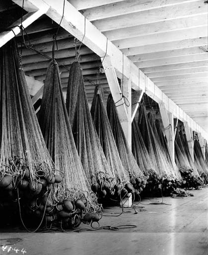 From John Cobb field notebook: Gill nets ready for use at P.H.J. 1917 Subjects (LCSH): Salmon industry--Alaska--Nushagak; Fishing nets--Alaska--Nushagak; Gillnetting--Alaska--Nushagak